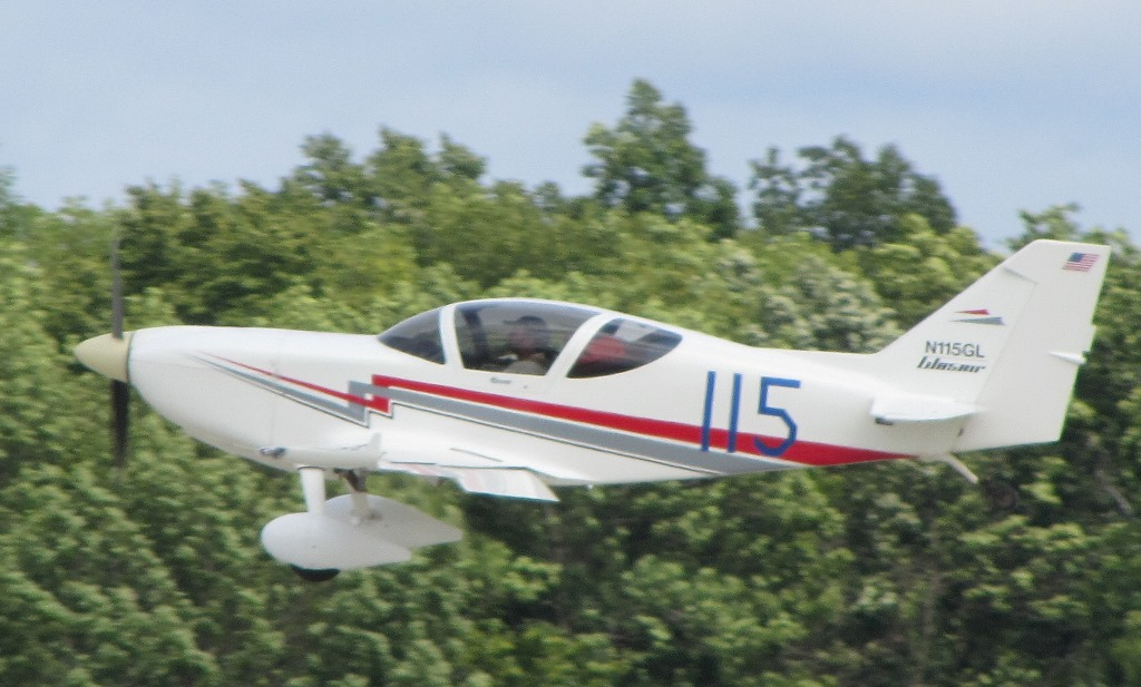 Glasair I TD